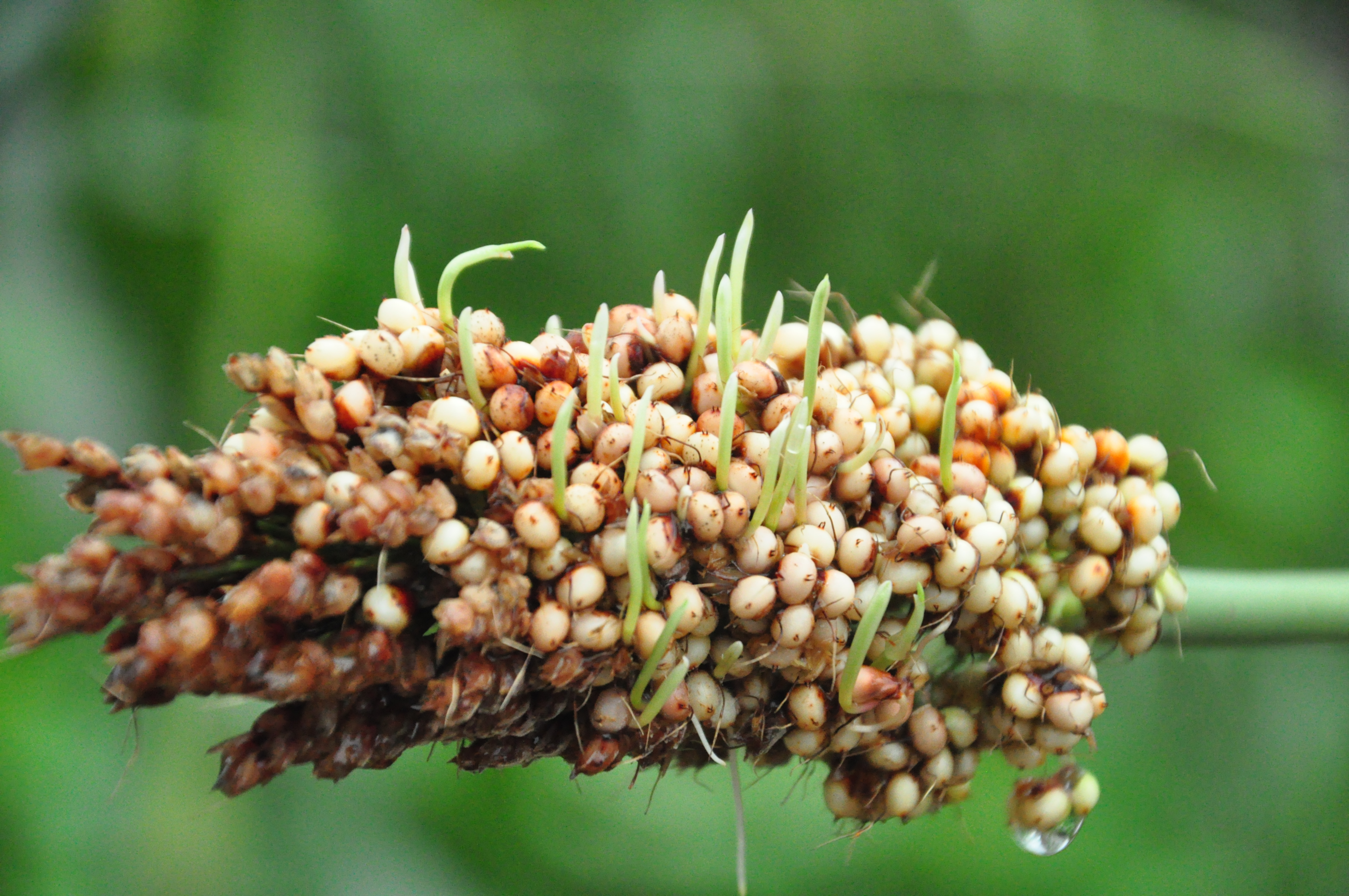 Germinant new plants (Malayalam: വിത്തിൽ നിന്നും ചാമച്ചെടികൾ മുളപ്പൊട്ടുന്നു)